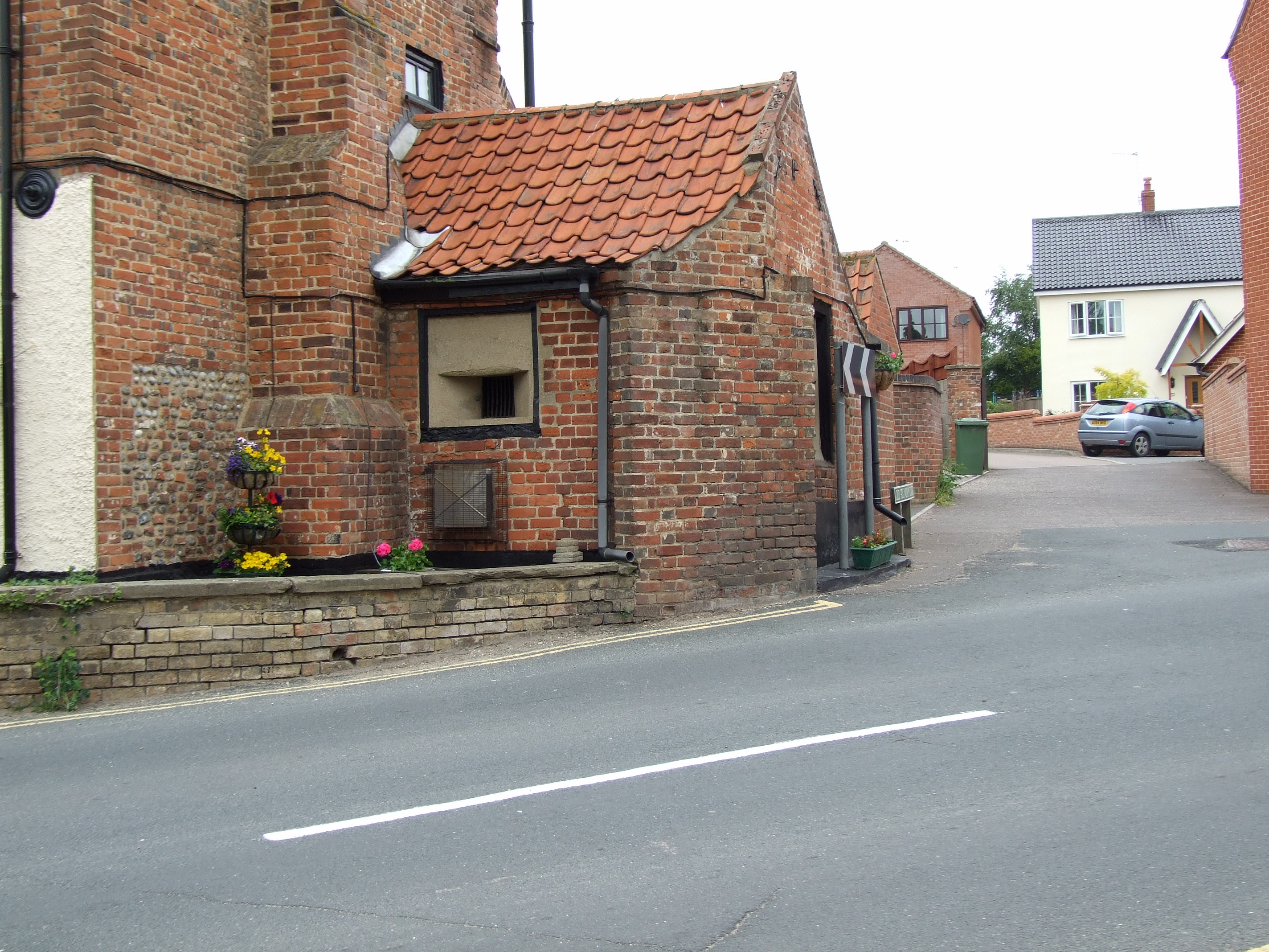 Diguised Pillbox, Acle